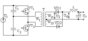 Derevenets_Полумост схема